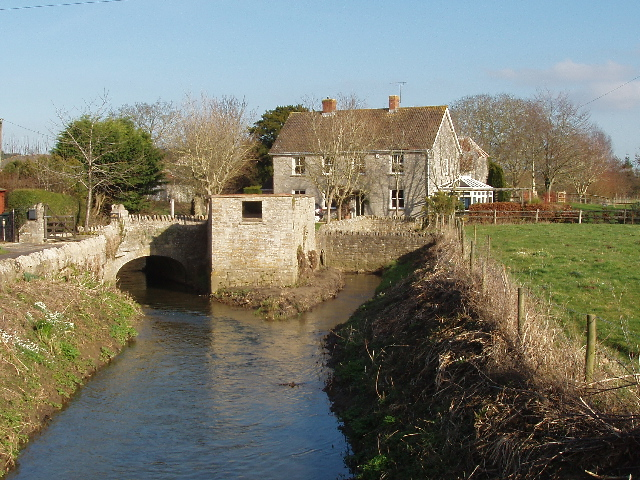 The Old Mill on the River Cam, West Camel View from road bridge over the Cam.